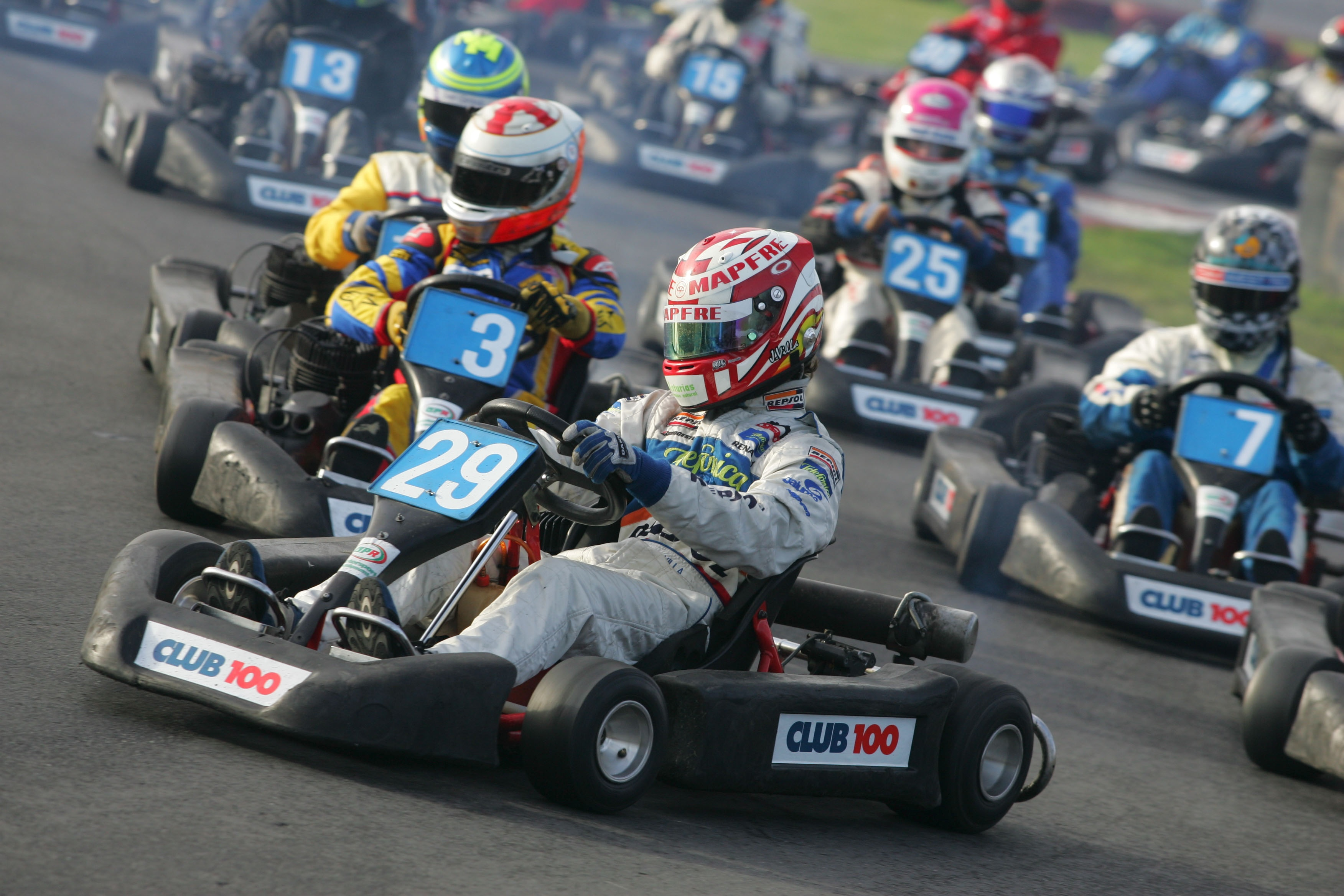 Javier Villa leading 'The Race Against Cancer'